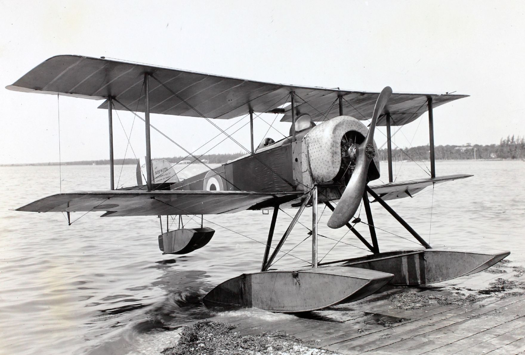 Sopwith Baby beached